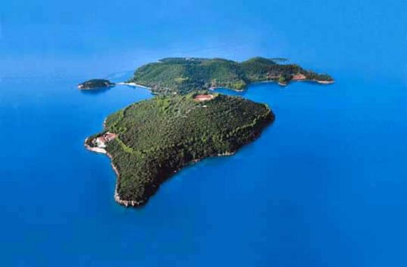 Skorpios. Aerial view, Ionian Islands.